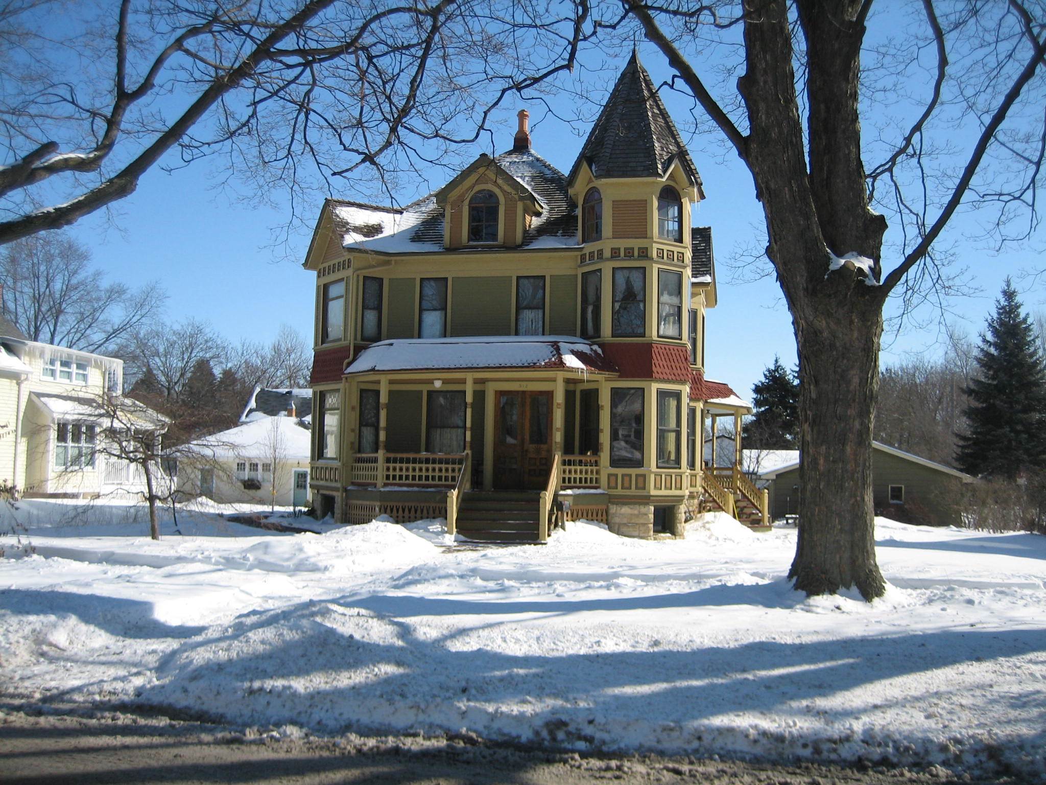 512 S Main St., Sycamore, Illinois. Sycamore Historic District, National Register of Historic Places.